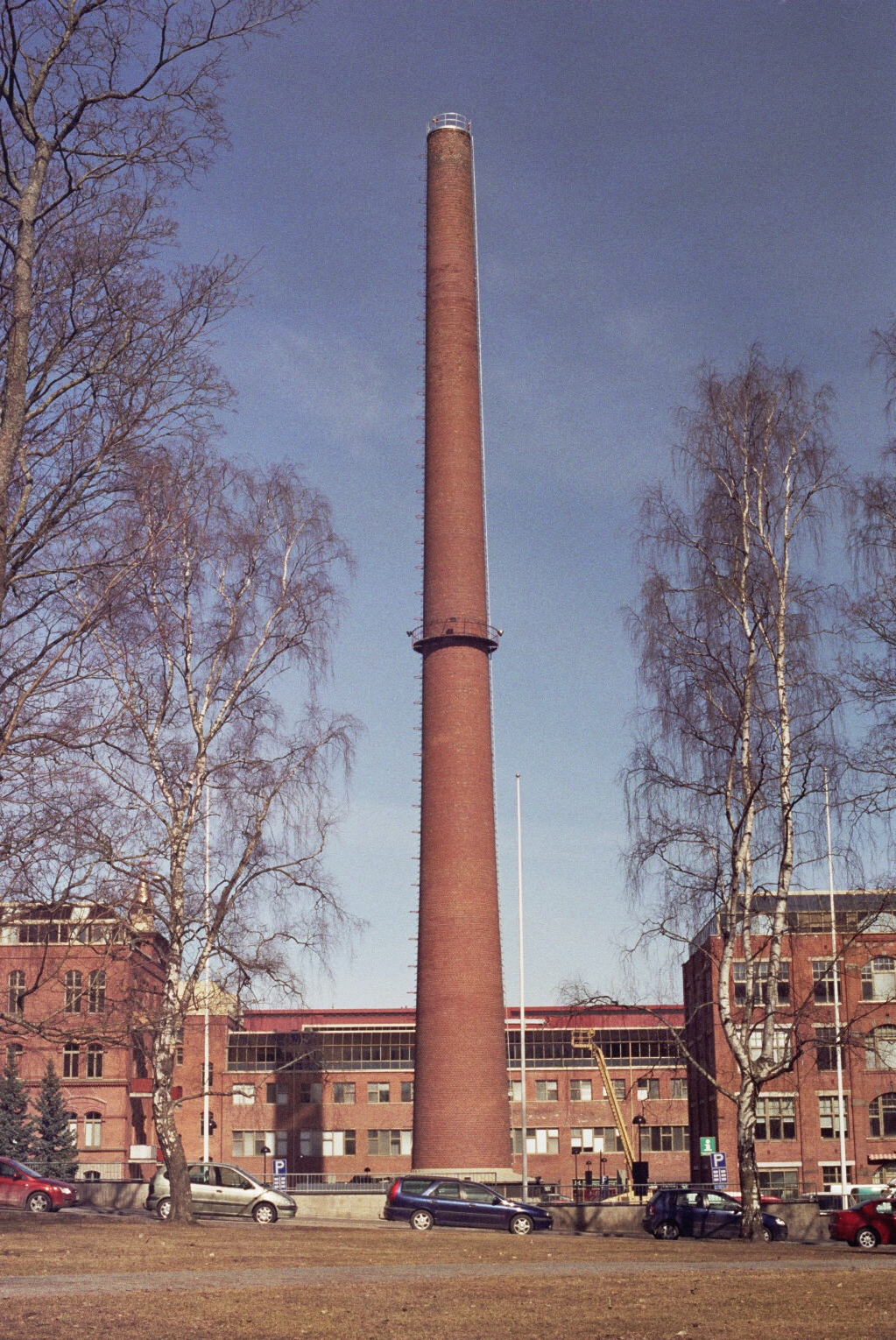 The inner court of the former wool mill of Klingendahl (founded in the 1890s by Fabian Klingendahl) in the city of Tampere in Finland. Seen in the photo is the former smokestack of the mill's own power station built in the early 1950s. It's over 80 meters high.